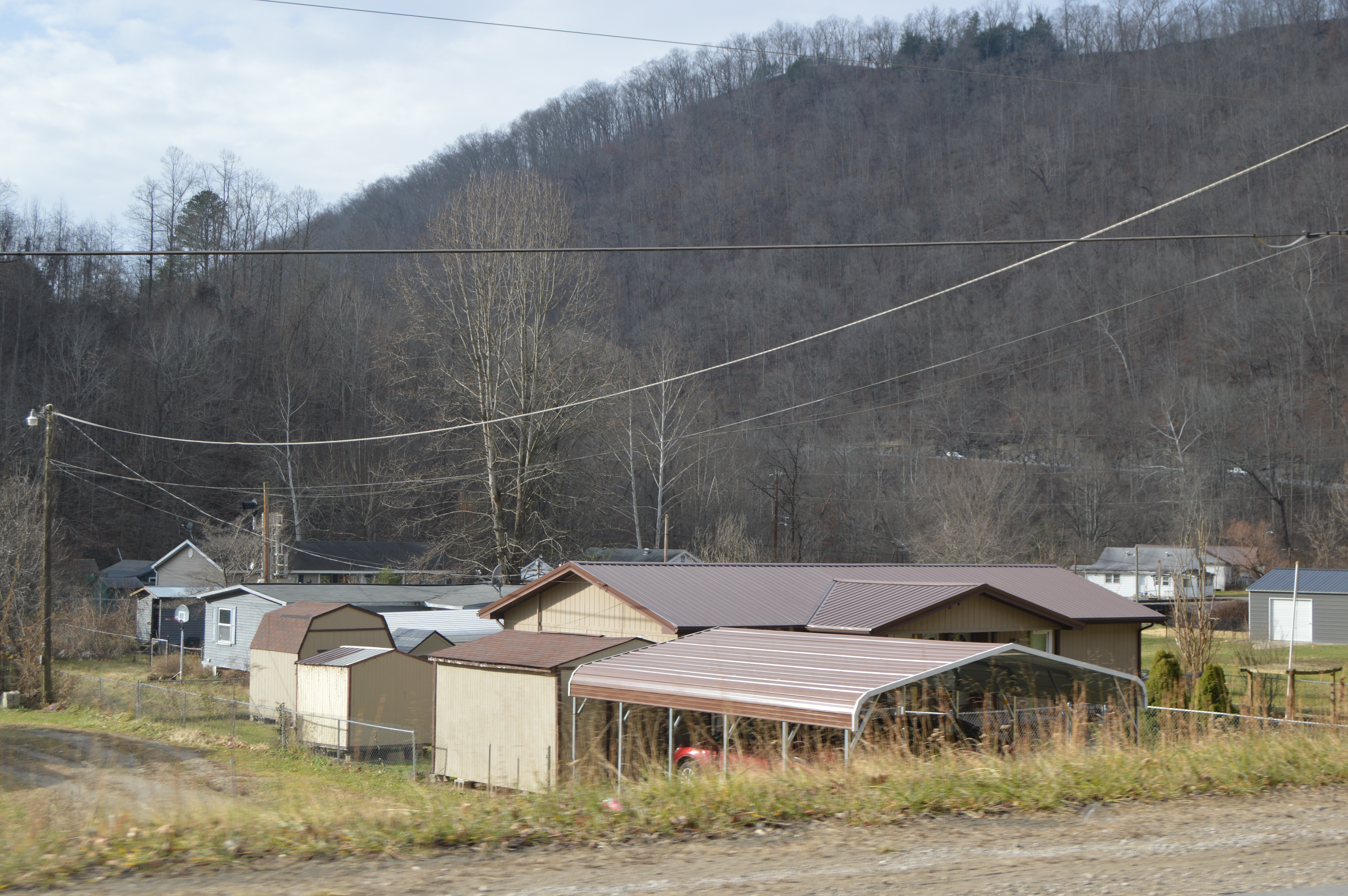 Houses on West Virginia Route 85 at Bigson in Boone County, West Virginia, United States.